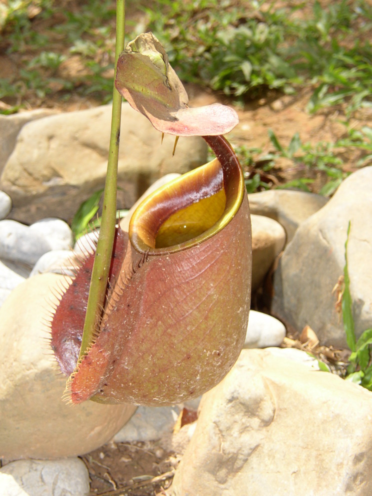 Photo of the plant in a nursery.